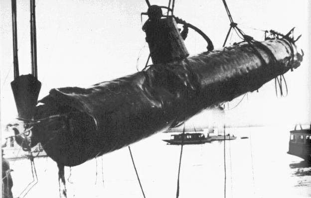 Wrecked Japanese midget submarine, almost certainly Midget No.21